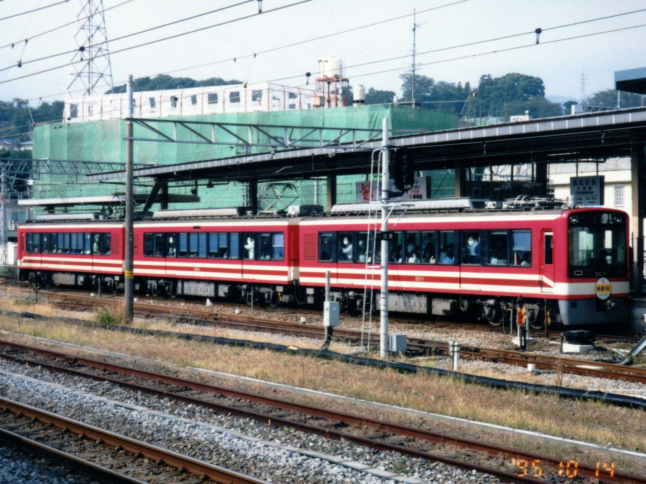 Hakone tozan Railway EMU type 2000 "HiSE" At Odawara Sta.